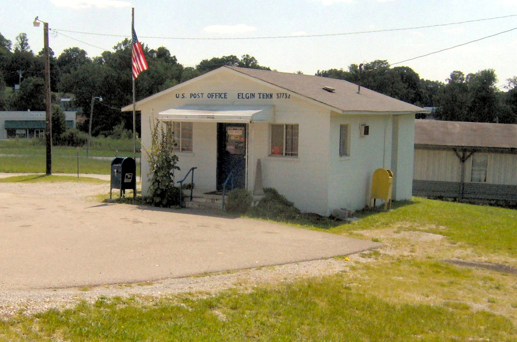 Post office in Elgin, Tennessee, United States.